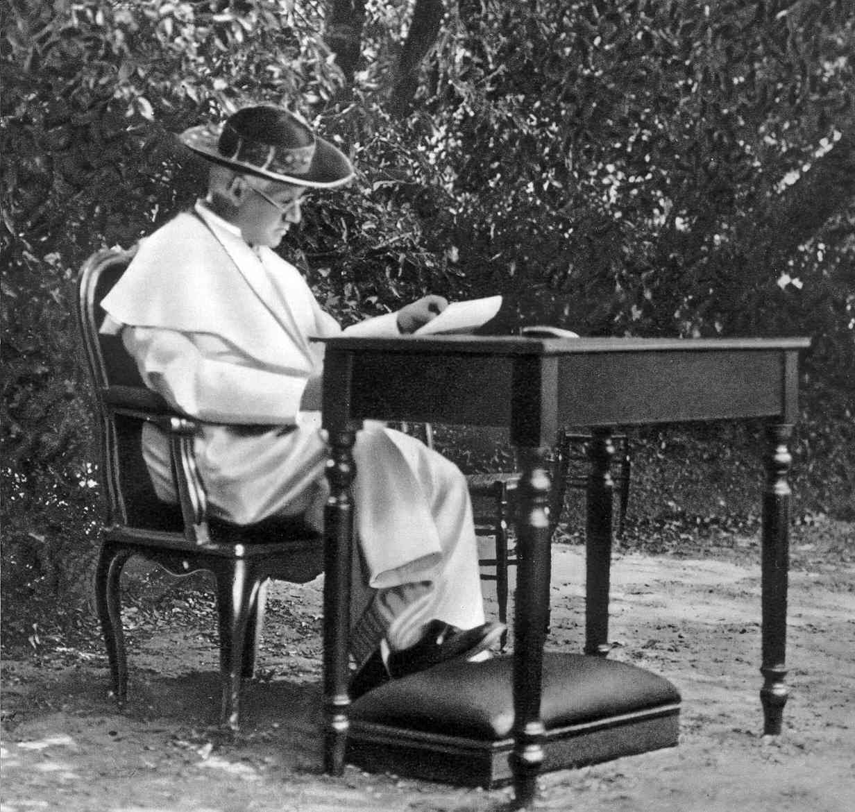 Pope Pius X portrayed working in the Vatican Gardens, after recovering from an illness.